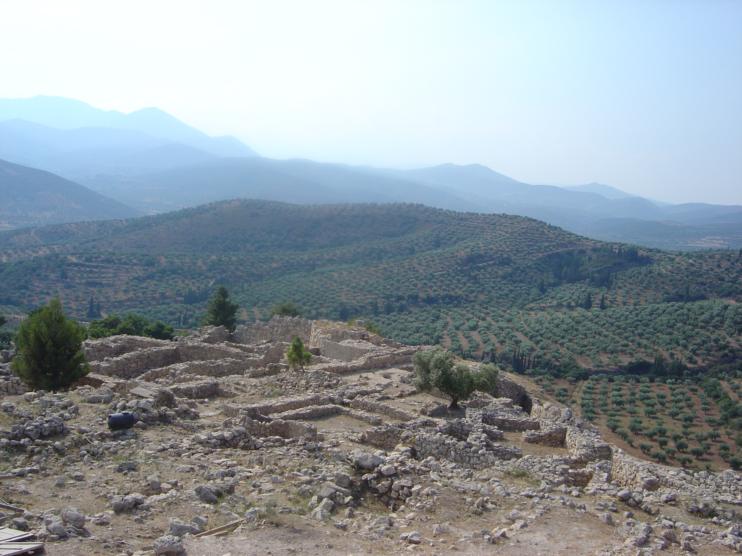 ruins in Mycenae